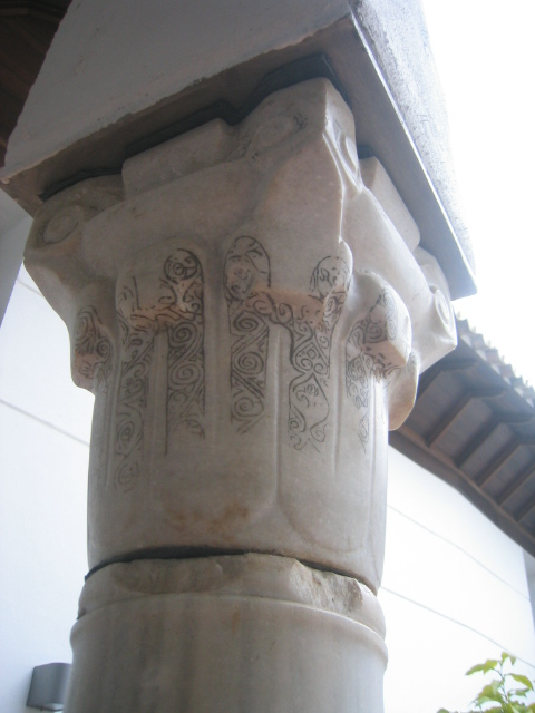 Nasrid architecture column head in newly opened casa del Gigante, Ronda, Andalucia.